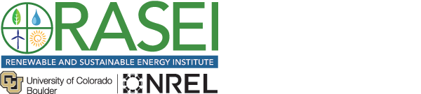 RASEI LOGO